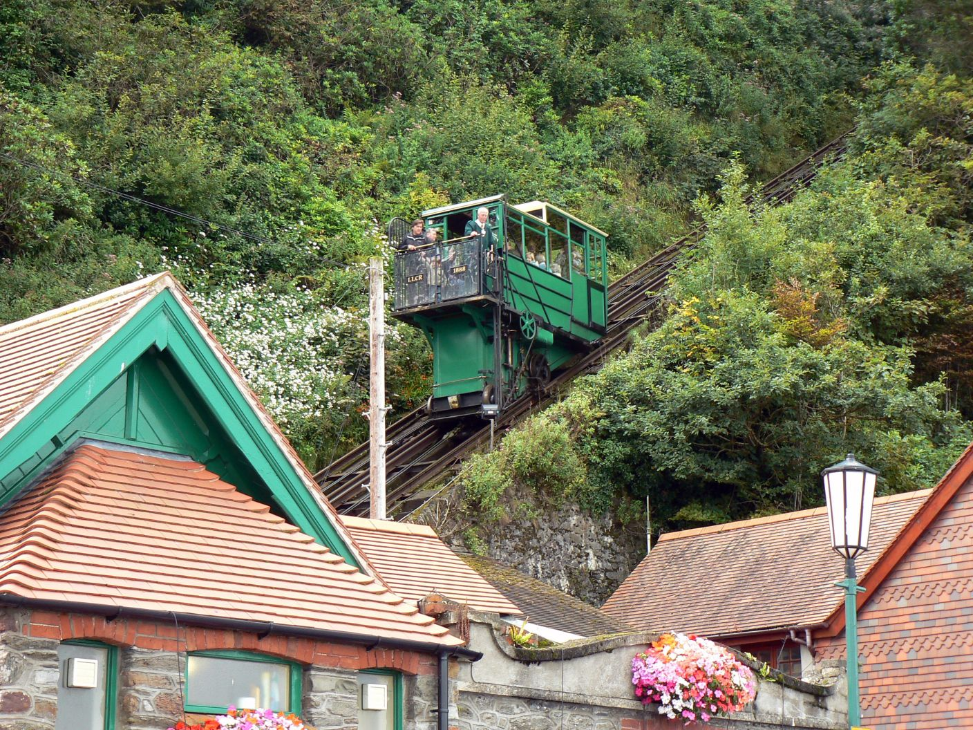 Lynton and Lynmouth Cliff Railway - funicular railway